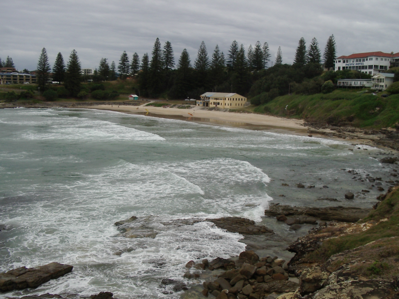 A photograph of Main Beach, Yamba, NSW, Australia.